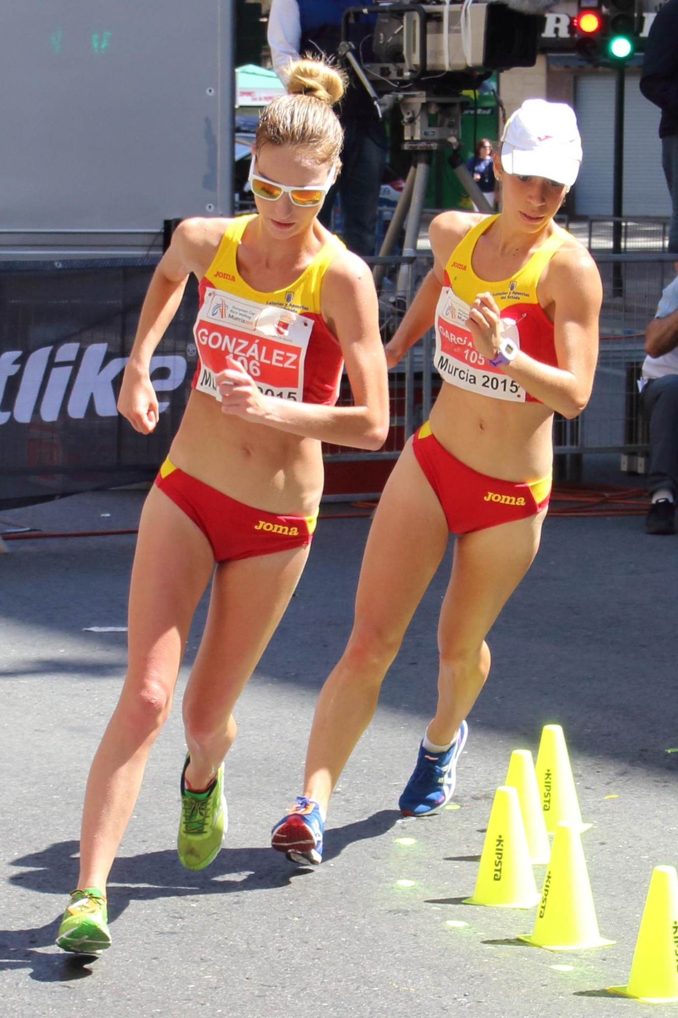 Raquel Gonzalez (106) and Laura García-Caro (105), spanish race walkers, in the European Cup Race Walking 2015 (Murcia, Spain).